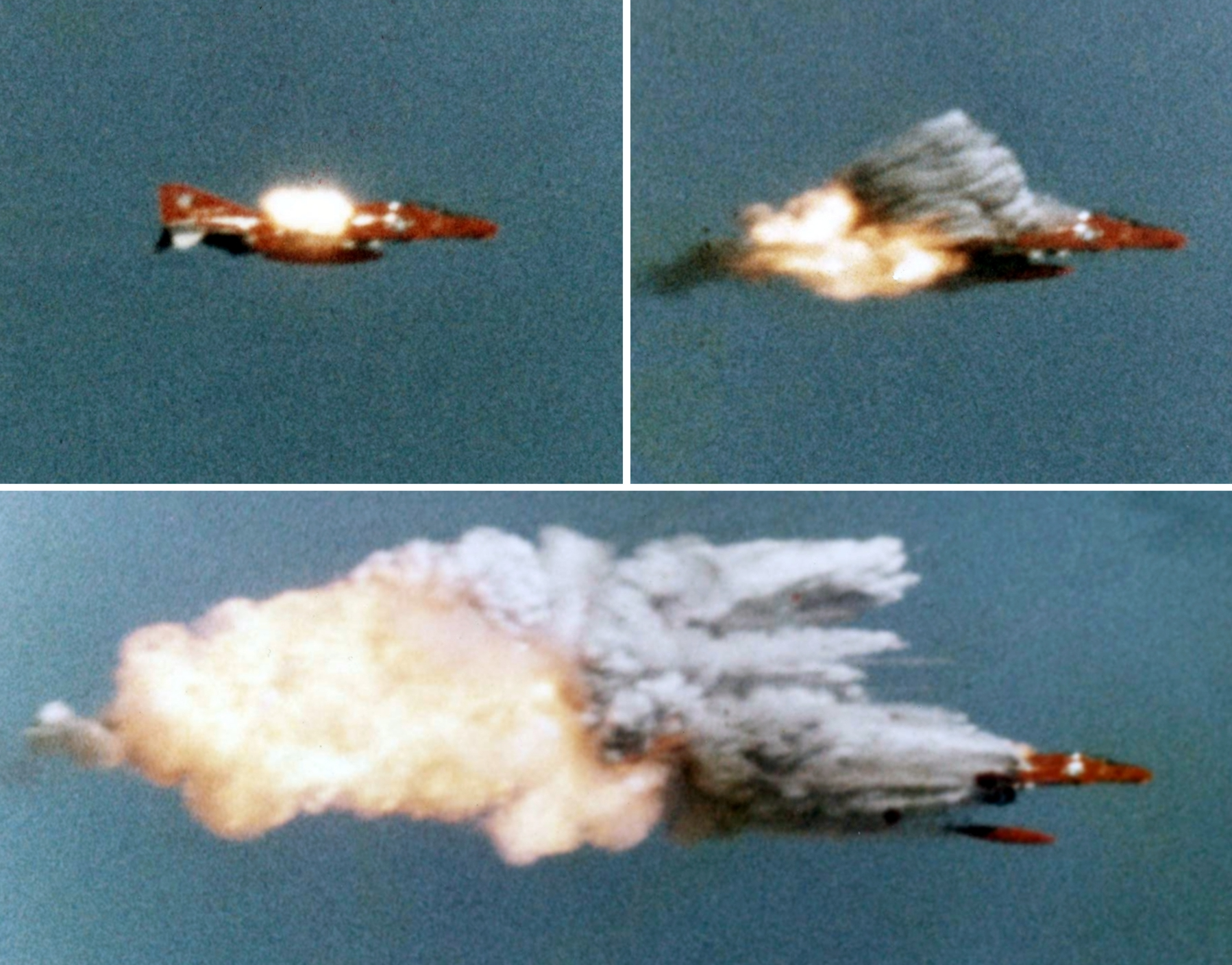 An AIM-9 Sidewinder air-to-air missile strikes a McDonnell QF-4B Phantom II target drone during tests at U.S. Navy Naval Missile Center (NMC) Point Mugu, California (USA), 6 February 1974.